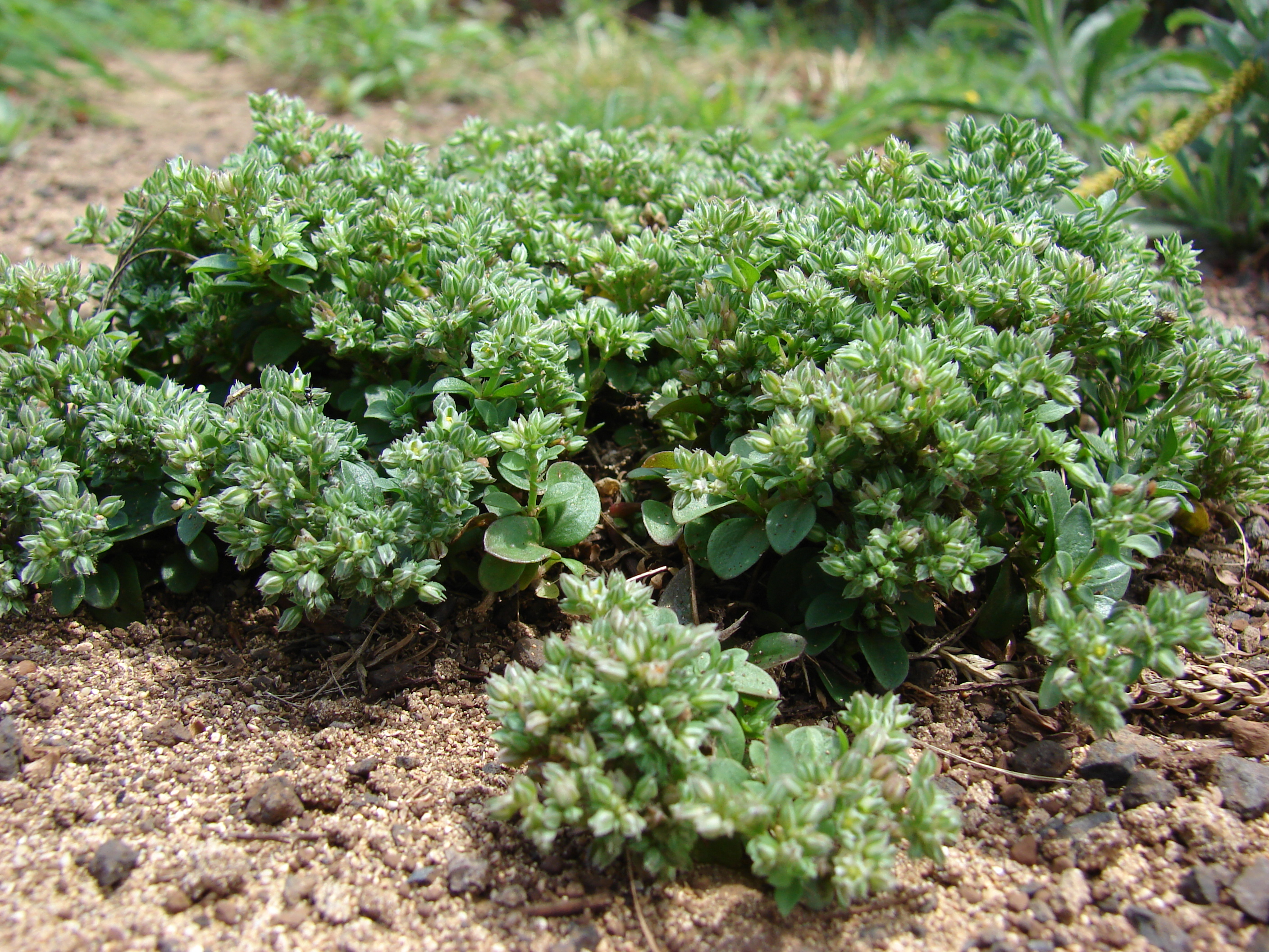 Polycarpon tetraphyllum (flowering habit). Location: Maui, Makawao